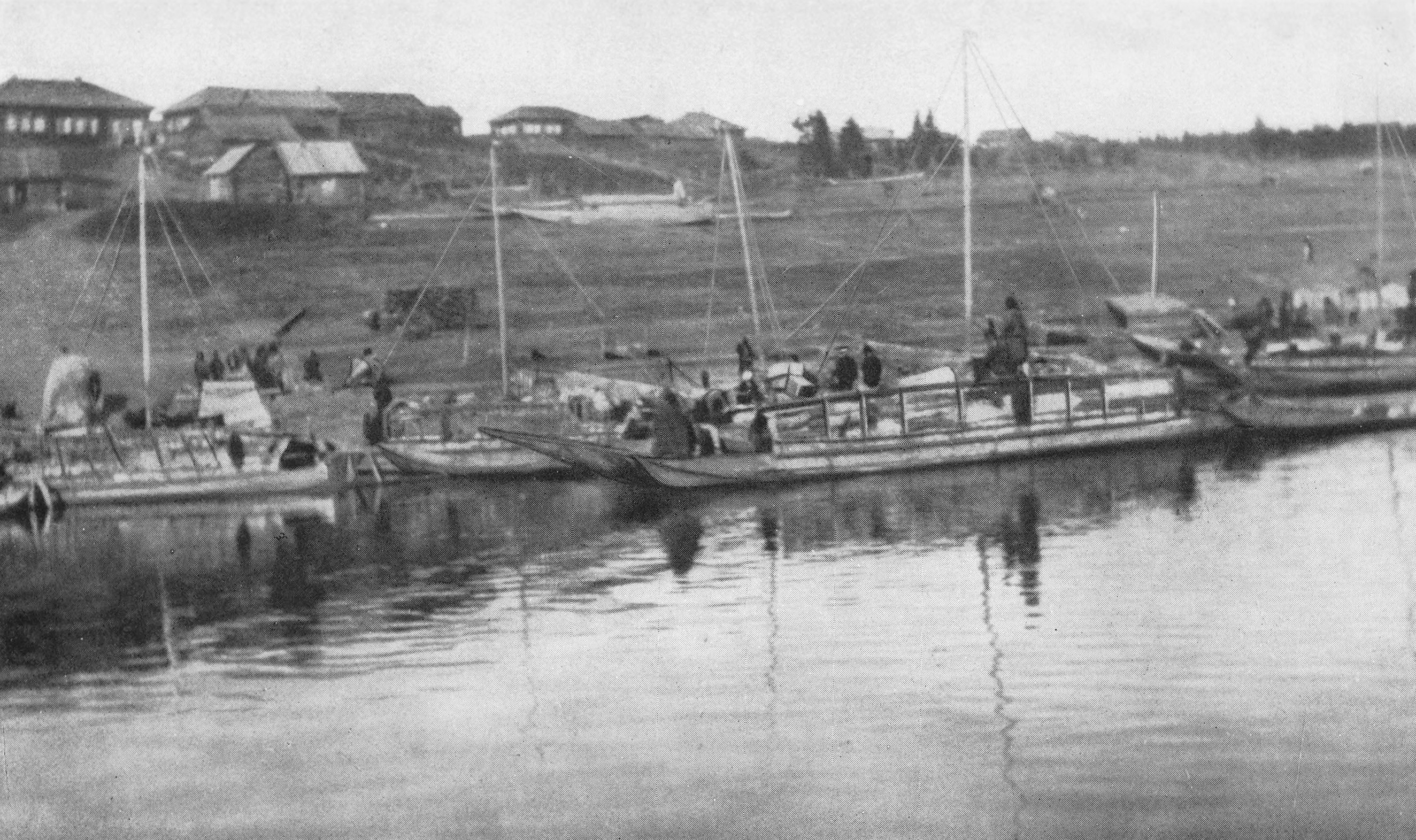 Boats of the Yenisei-Ostiaks preparing to start from Sumarokova (Sept. 16th)